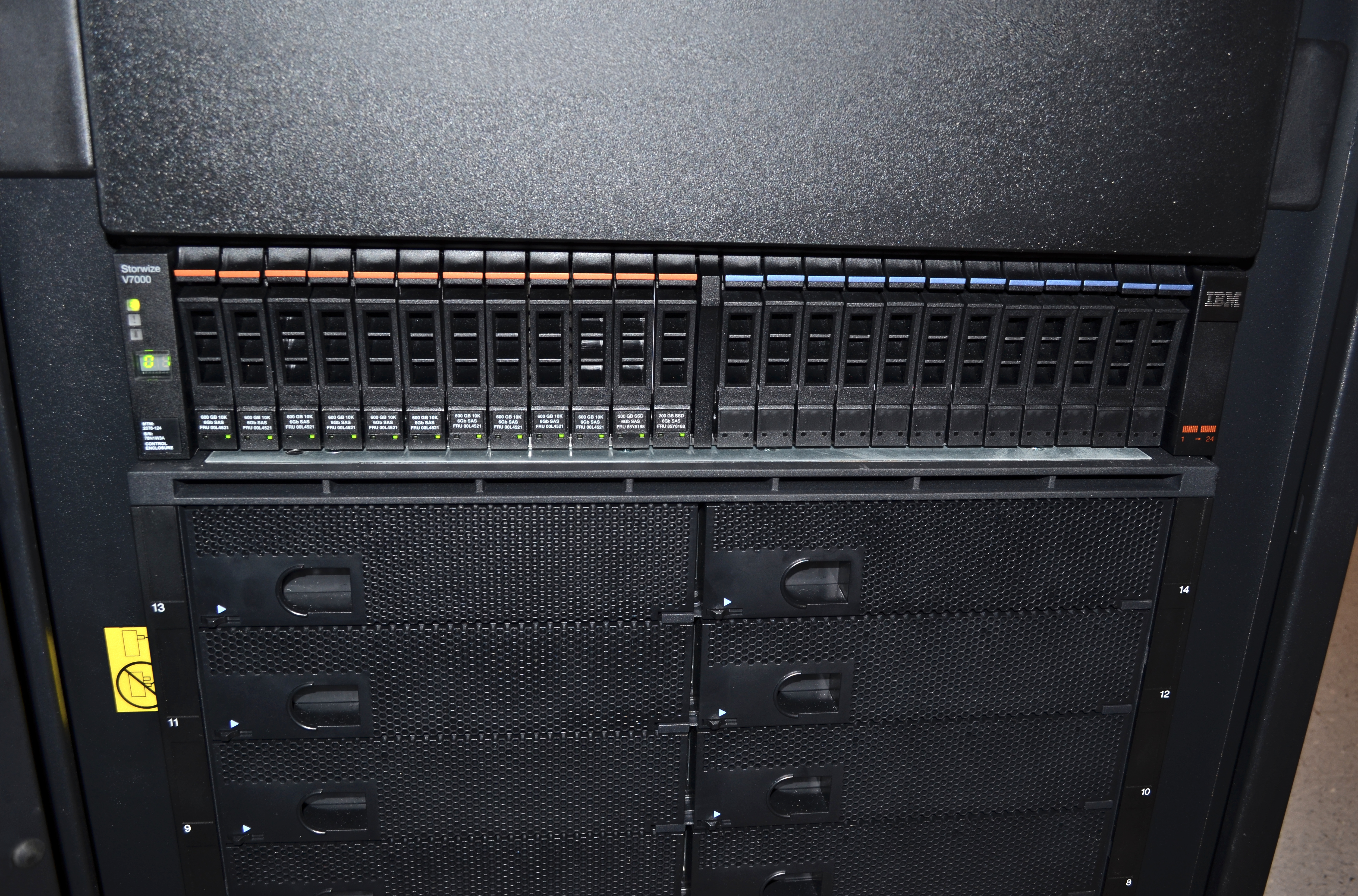 IBM Pure Systems